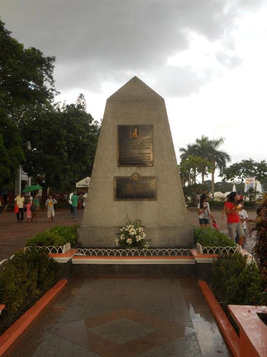 Gomburza excecution site